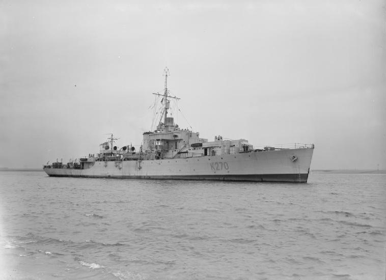 Photograph of River class frigate HMS Nene.